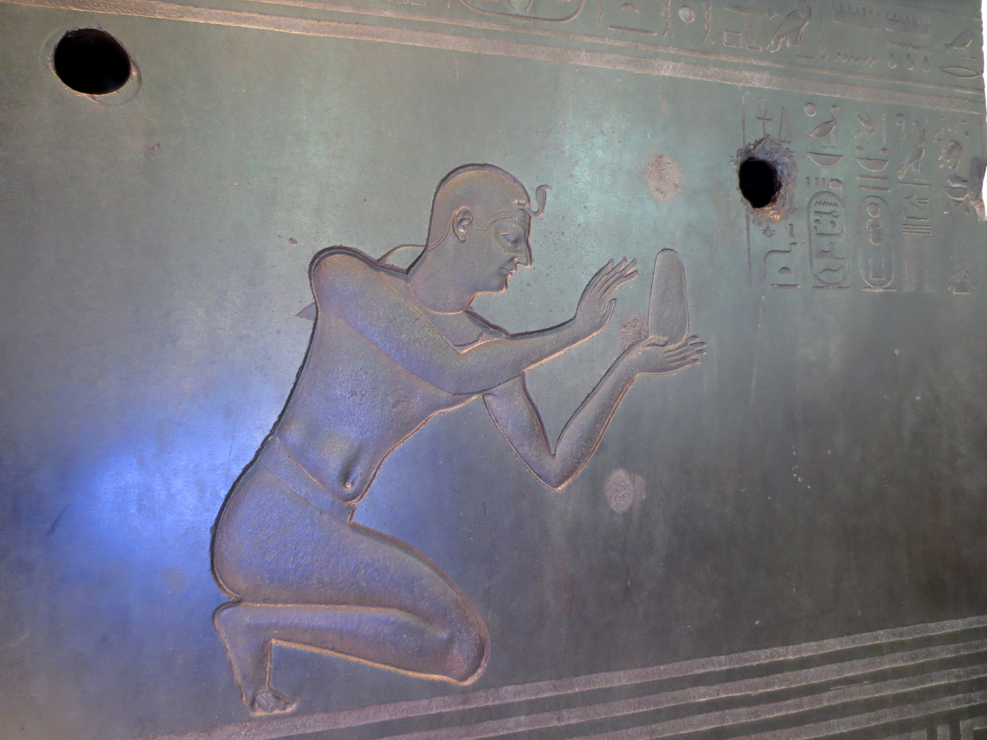 Dynasty 30 architectural slab